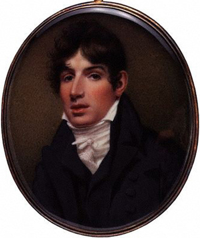 Portrait of Henry Siddons (1774–1815), English actor